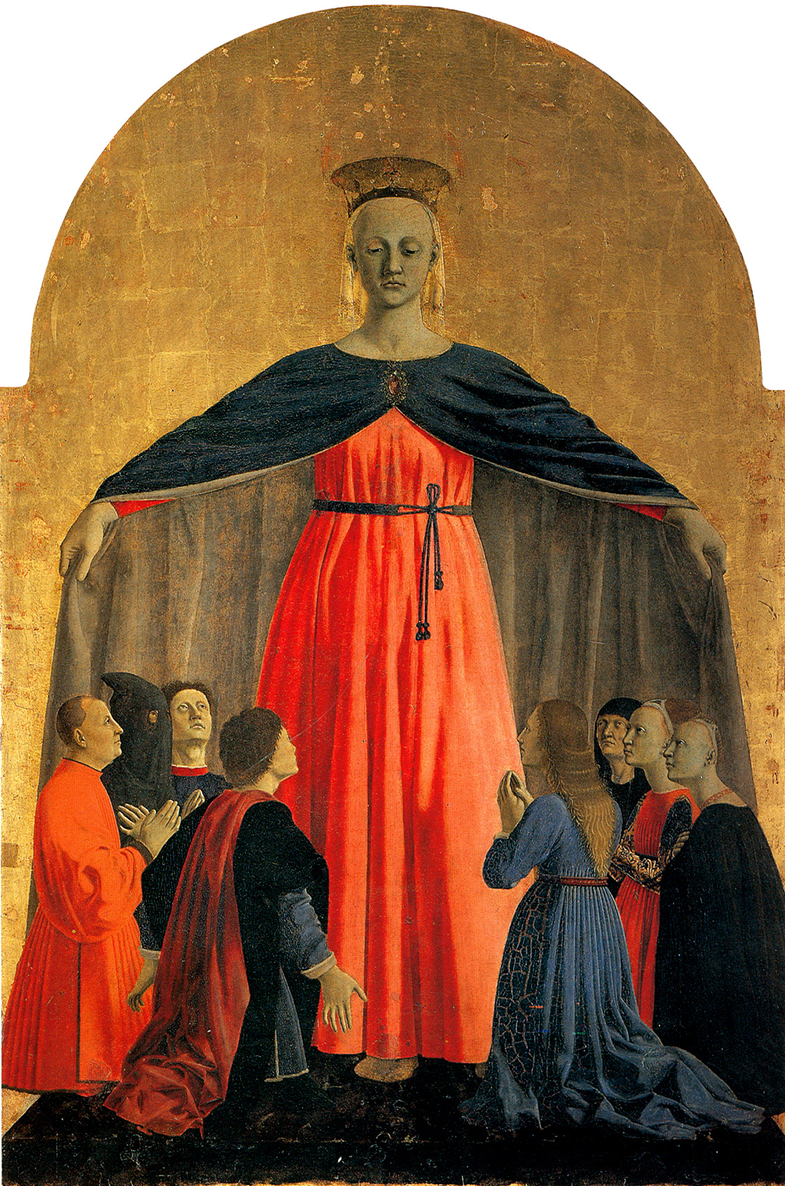 Polyptych of Misericordia: Madonna of Misericordia Piero della Francesca Tempera and oil on panel, 134 x 91 cm Sansepolcro, Museo Civico